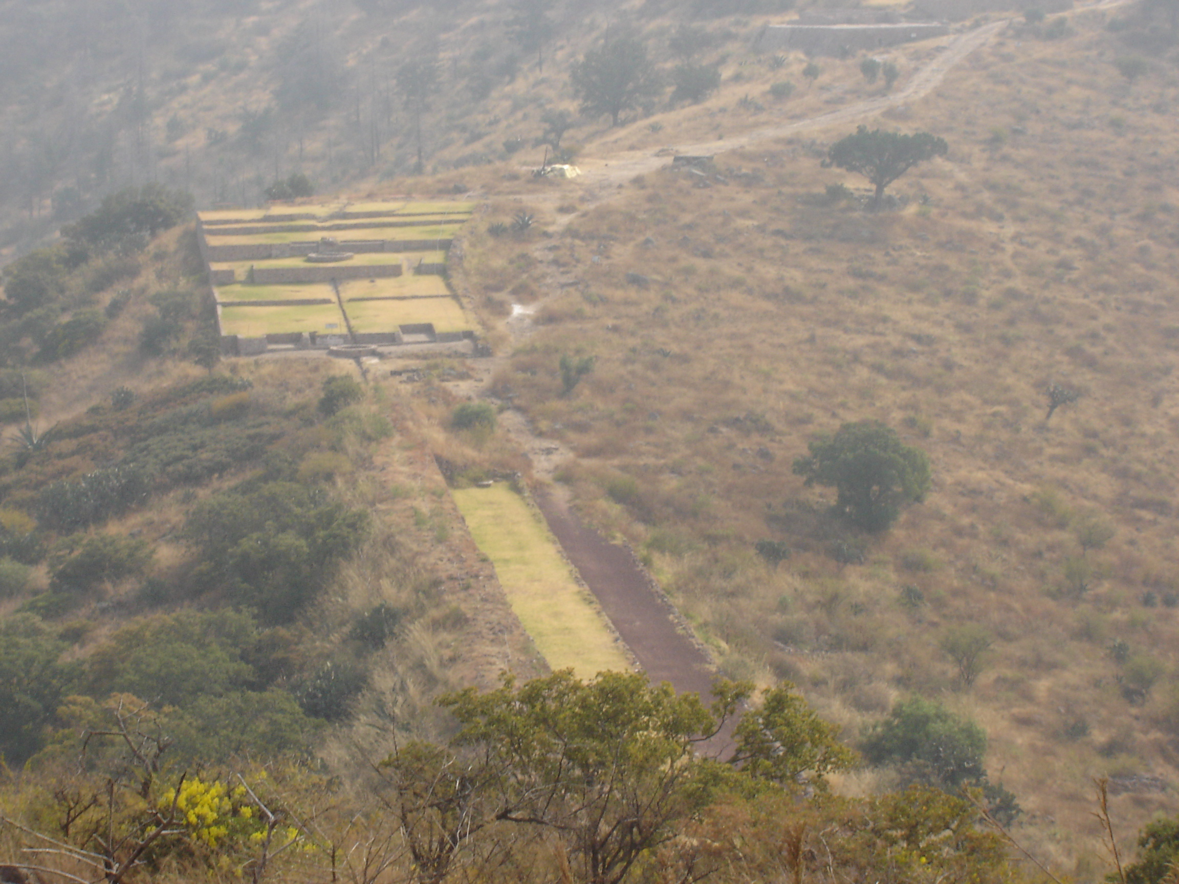 Vista del Acueducto desde templos segundo nivel Author: Martin Polanco